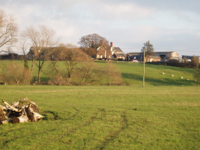 Looking west (sic, map indicates should be east) to Shipbrookhill. Taken from near Shipbrook Bridge